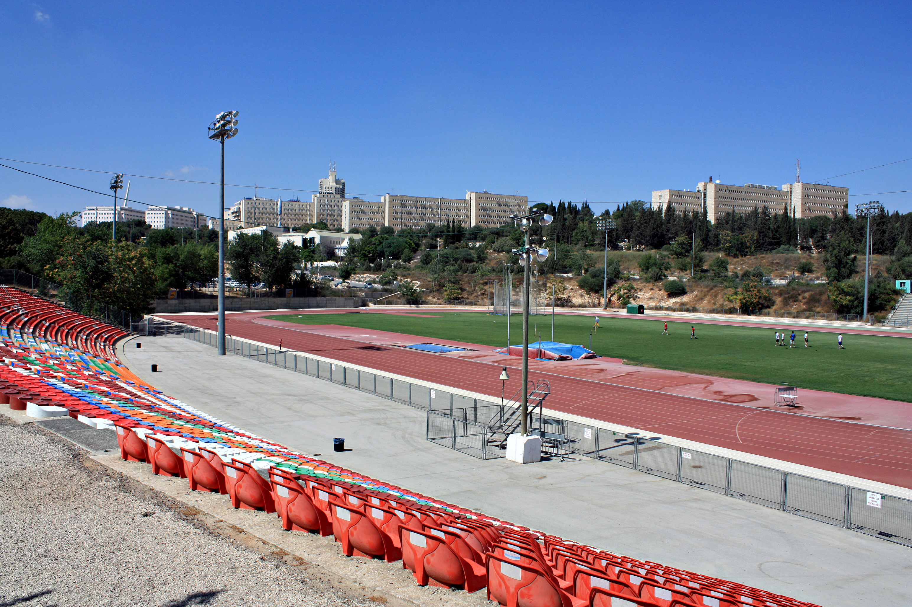 Givat ram stadium